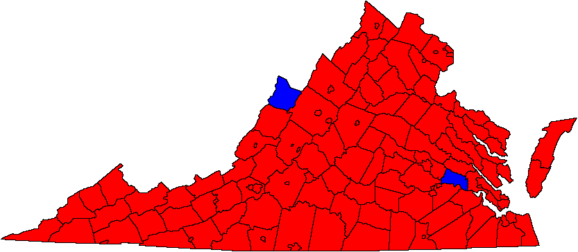 Map showing county choices of the 1984 Senate election in Virginia, between Republican John Warner and Democrat Edythe C. Harrison